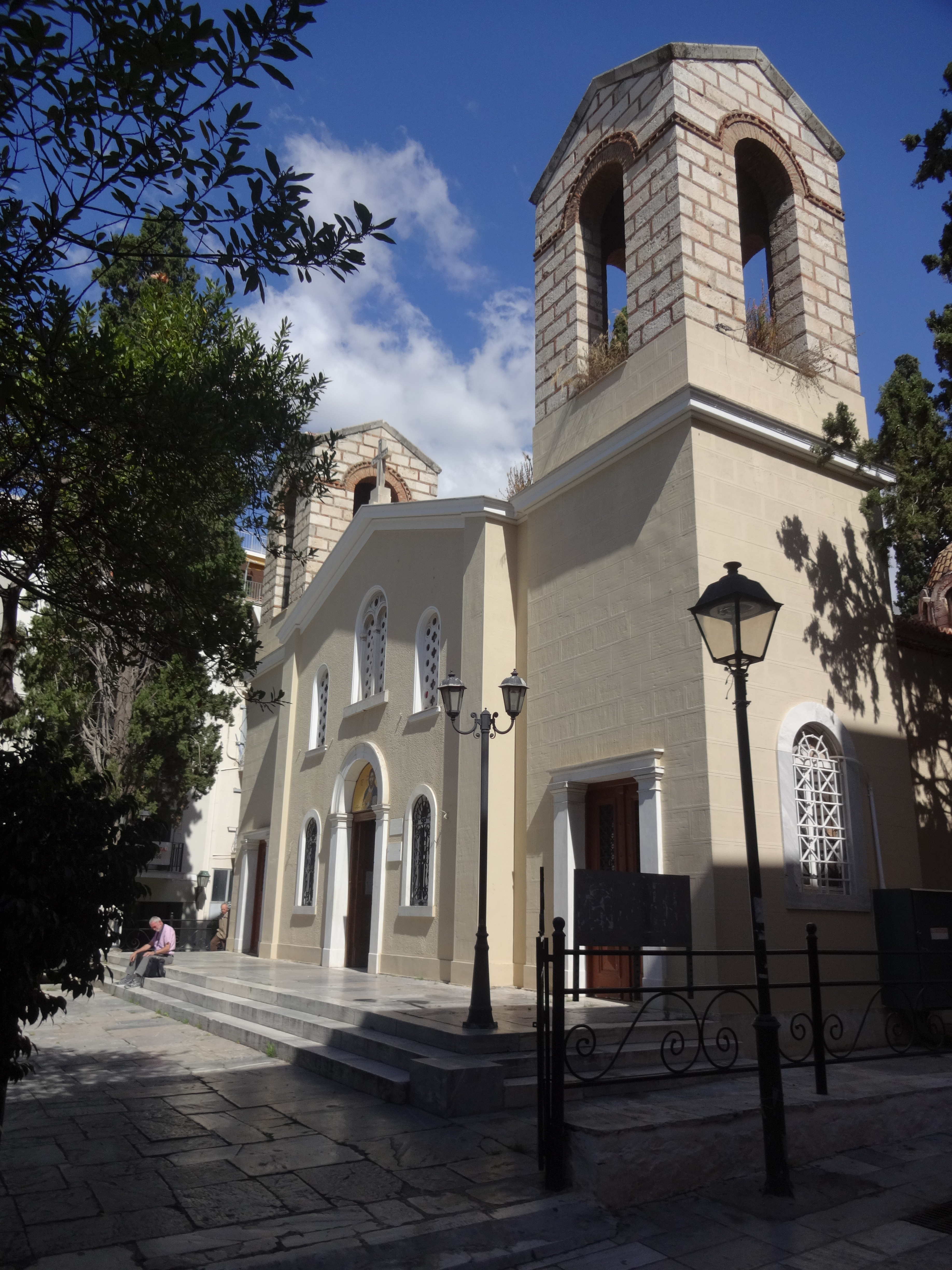 Church Sotira Kotaki, Plaka, Athens, Greece. New bell towers.